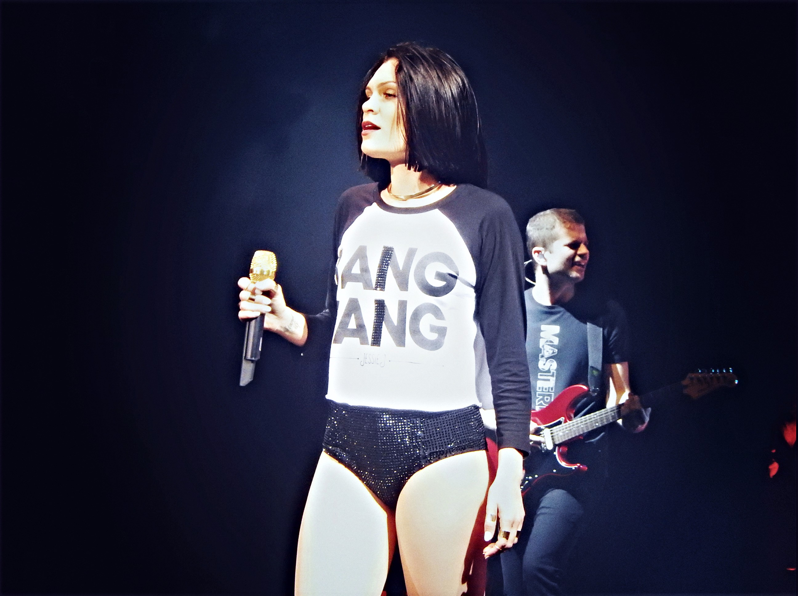 Jessie J, Brixton Academy, London